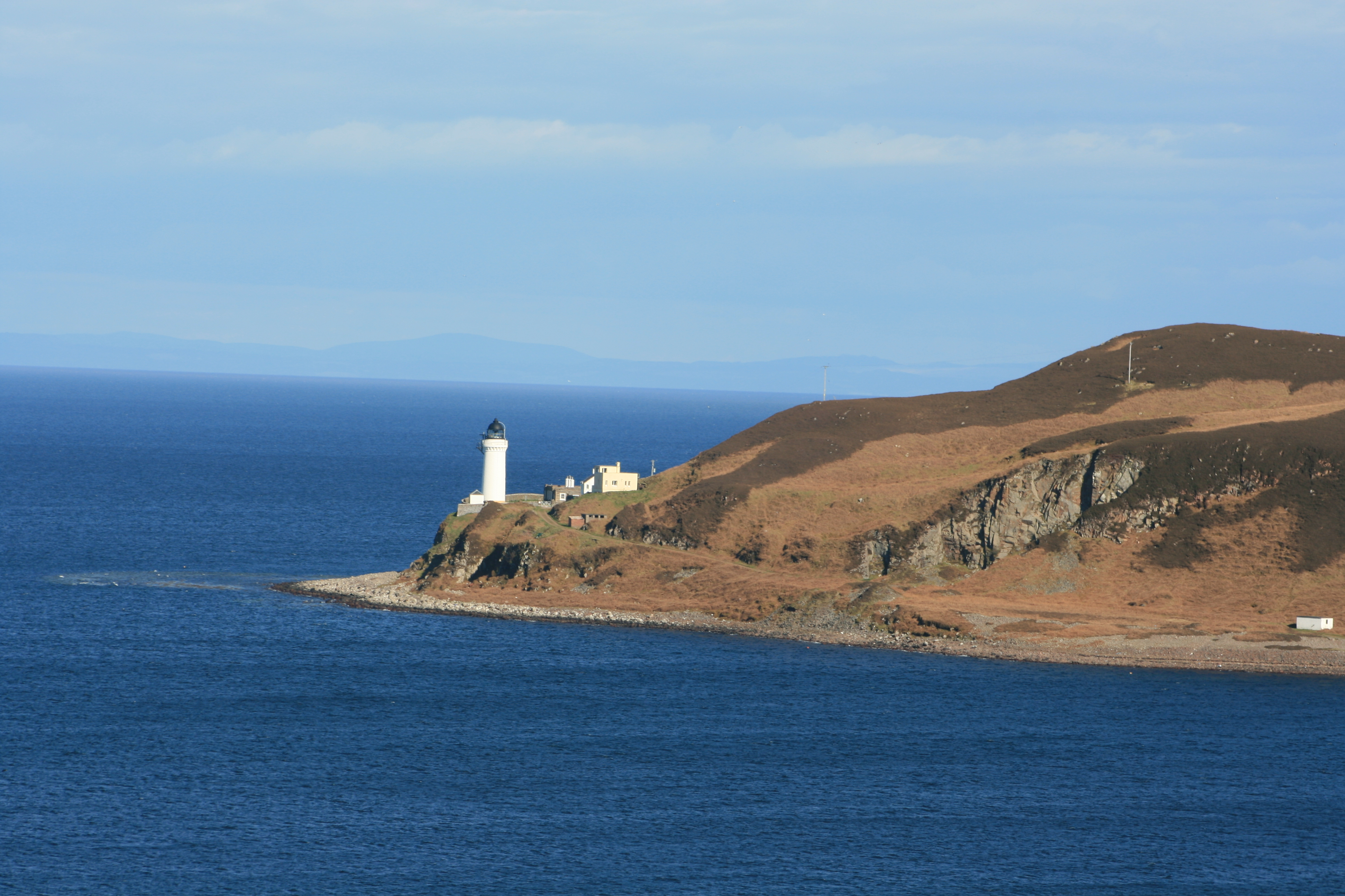 View of the Lighthouse on Davaar Island